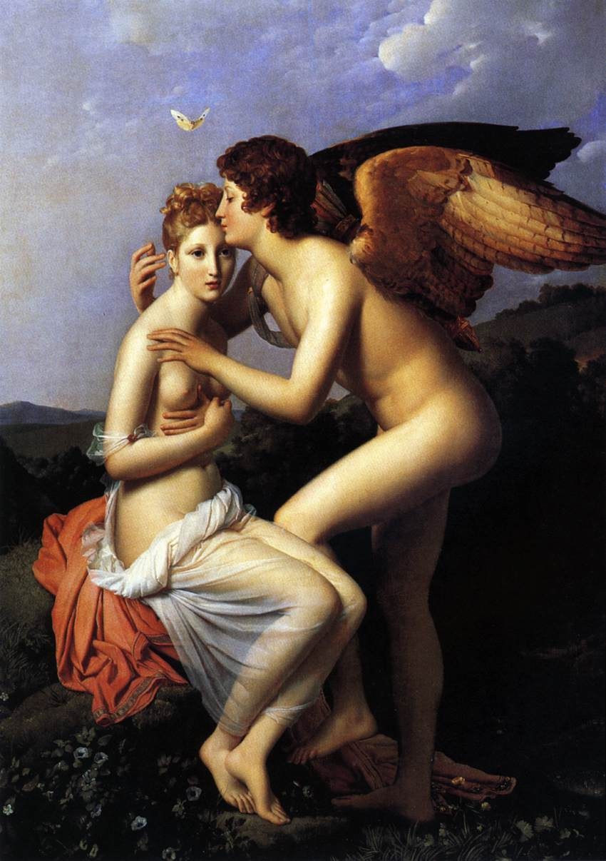 Psyché et l'Amour (Cupid and Psyche). oil on canvasmedium QS:P186,Q296955;P186,Q12321255,P518,Q861259, exhibited at the 1798 Salon.